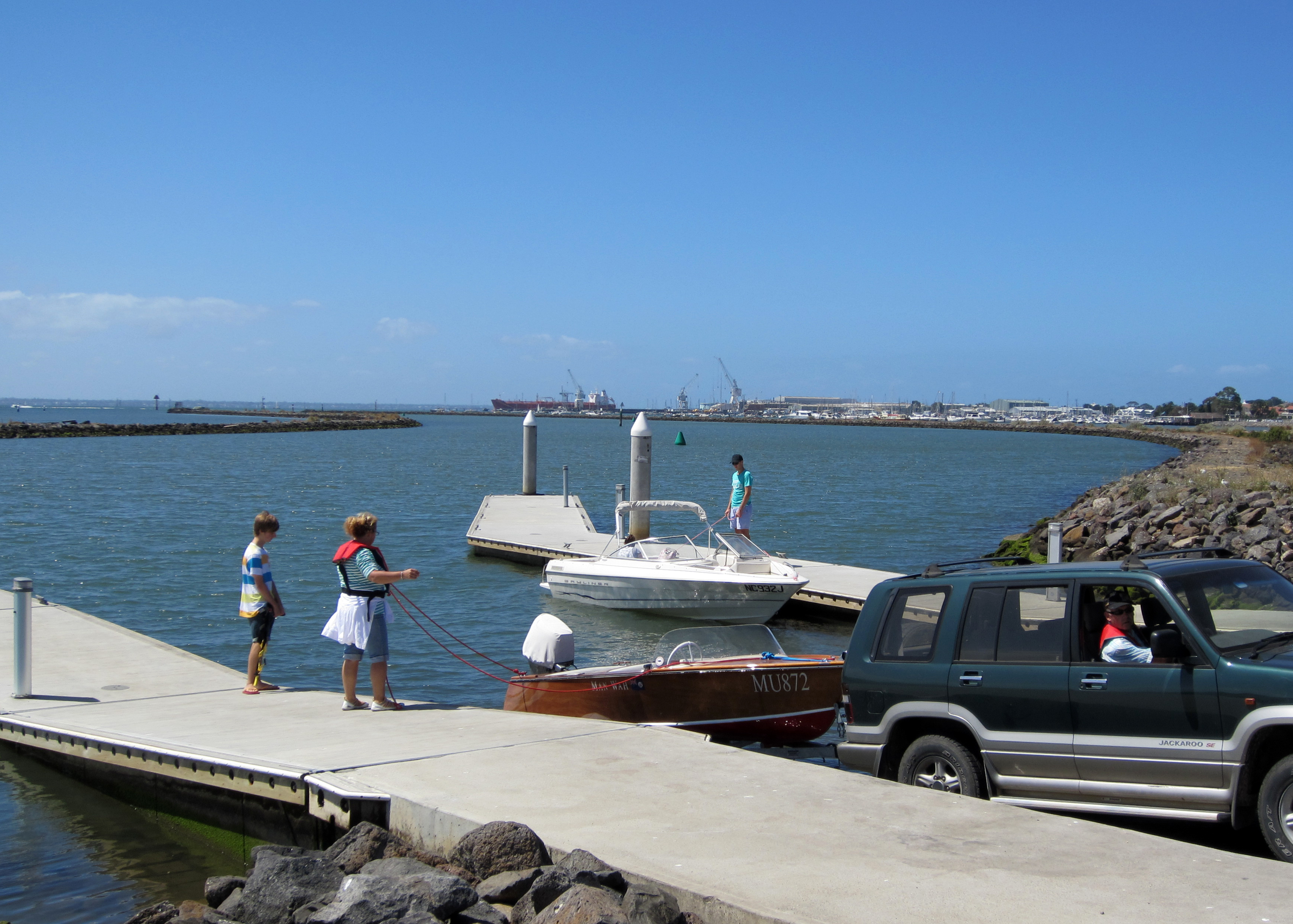 Warmies Boat Ramp, Newport, Victoria